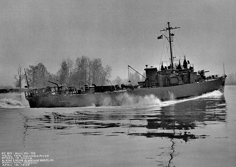 USS PC-815 running trials April 13 1943 on the Columbia River.